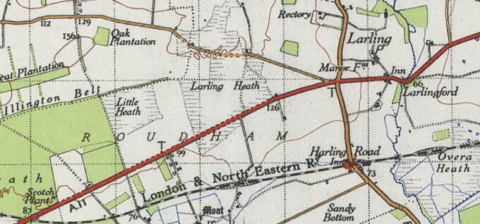 Ordnance Survey of Great Britain